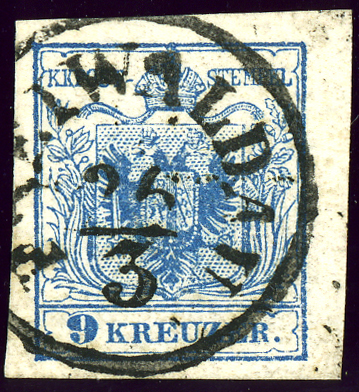 Austrian KK stamp 9 kreuzer issue 1850, cancelled at FREIWALDAU (Silesia, Czech Republic)